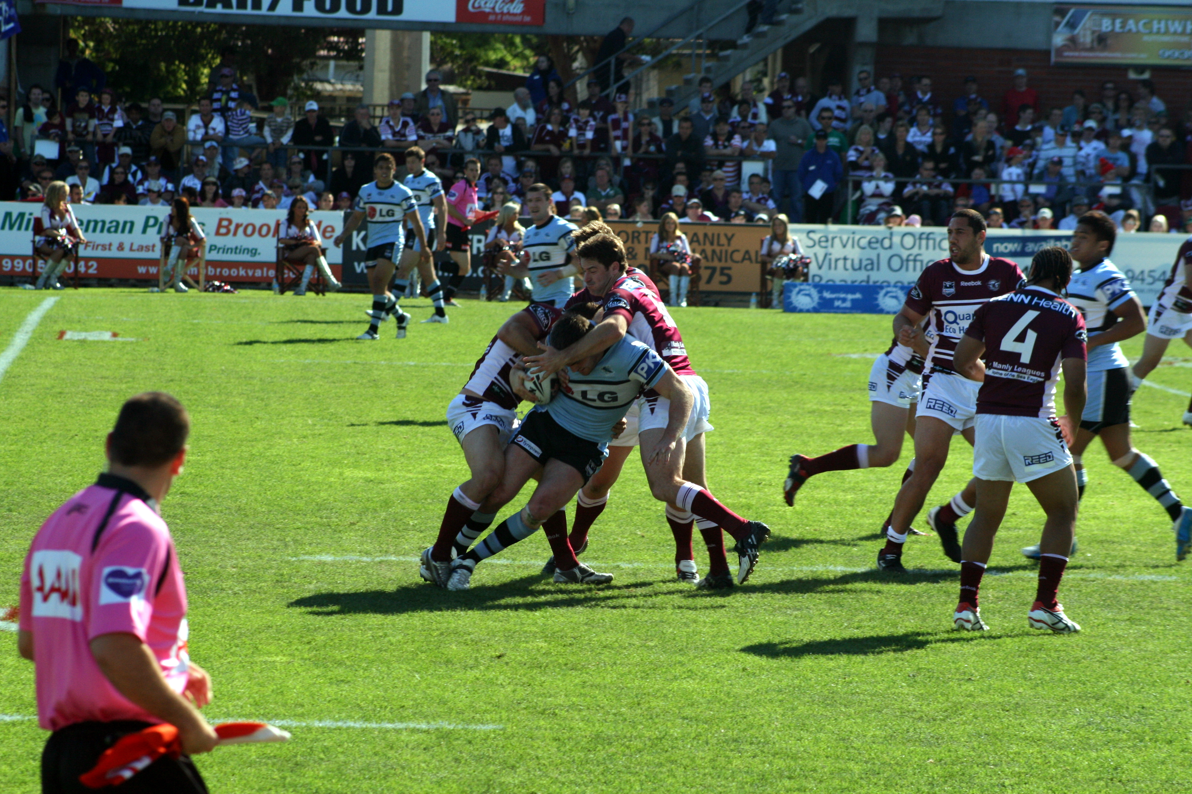 A rugby league tackle